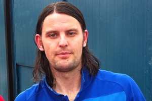 Photo of Chris Blackburn taken by myself following the friendly game between Tamworth and Stockport County on 24 September 2011 at The Lamb Ground in Tamworth.